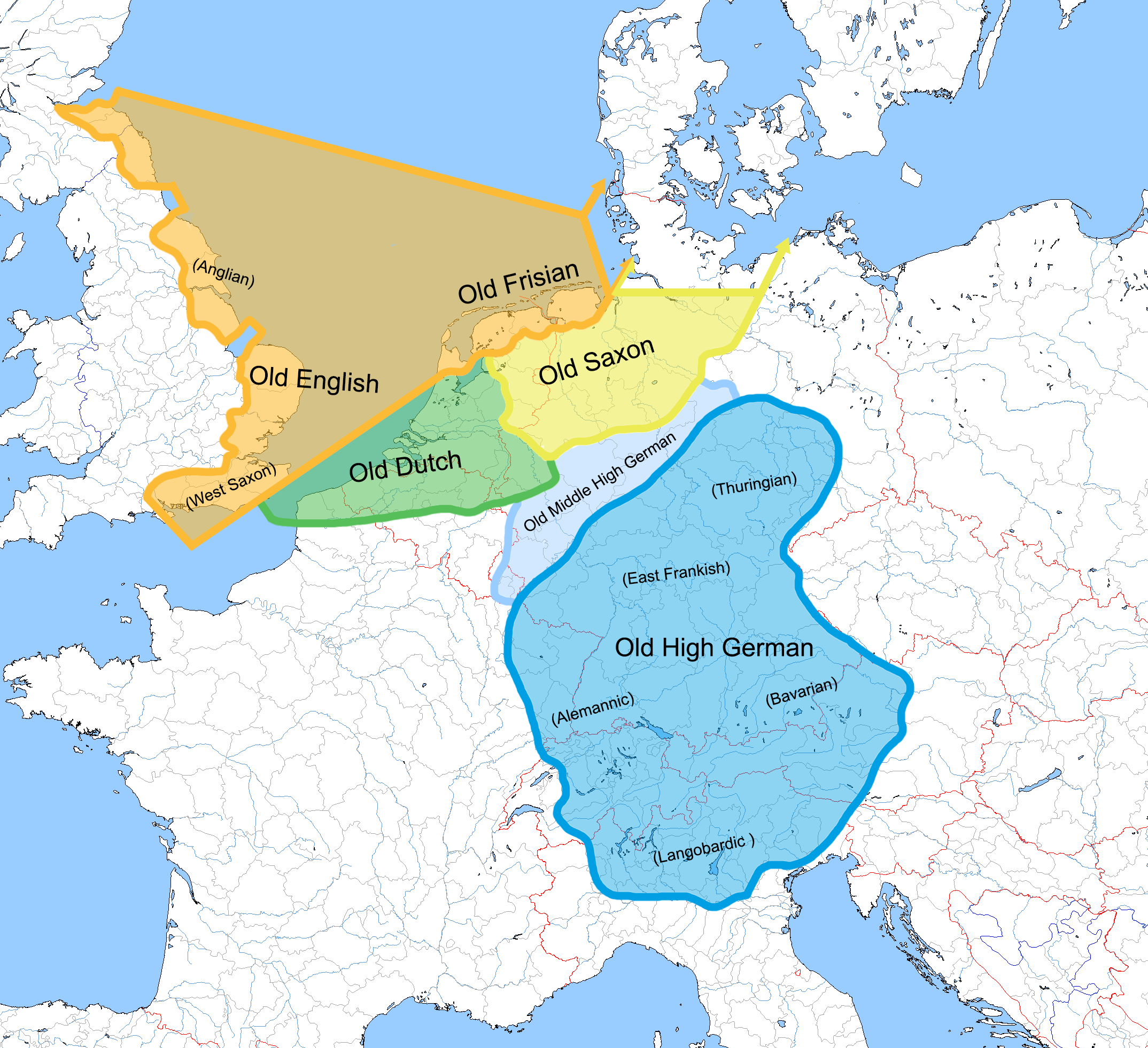 The West-Germanic languages around the 6th century CE. composite image based on the respective maps found in the dtv-Atlas Deutsche Sprache, by W. König. Published in Munich in 2001.